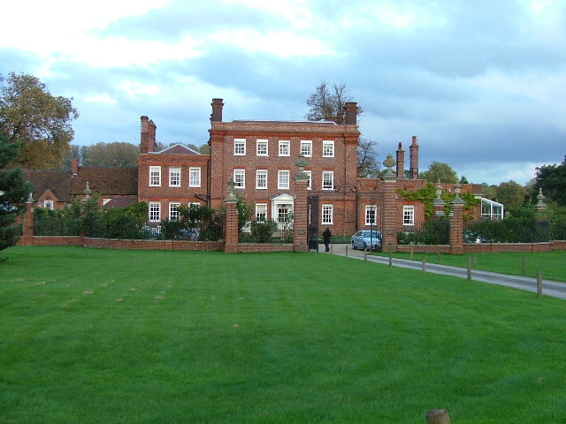 Henlow Grange Champneys health spa